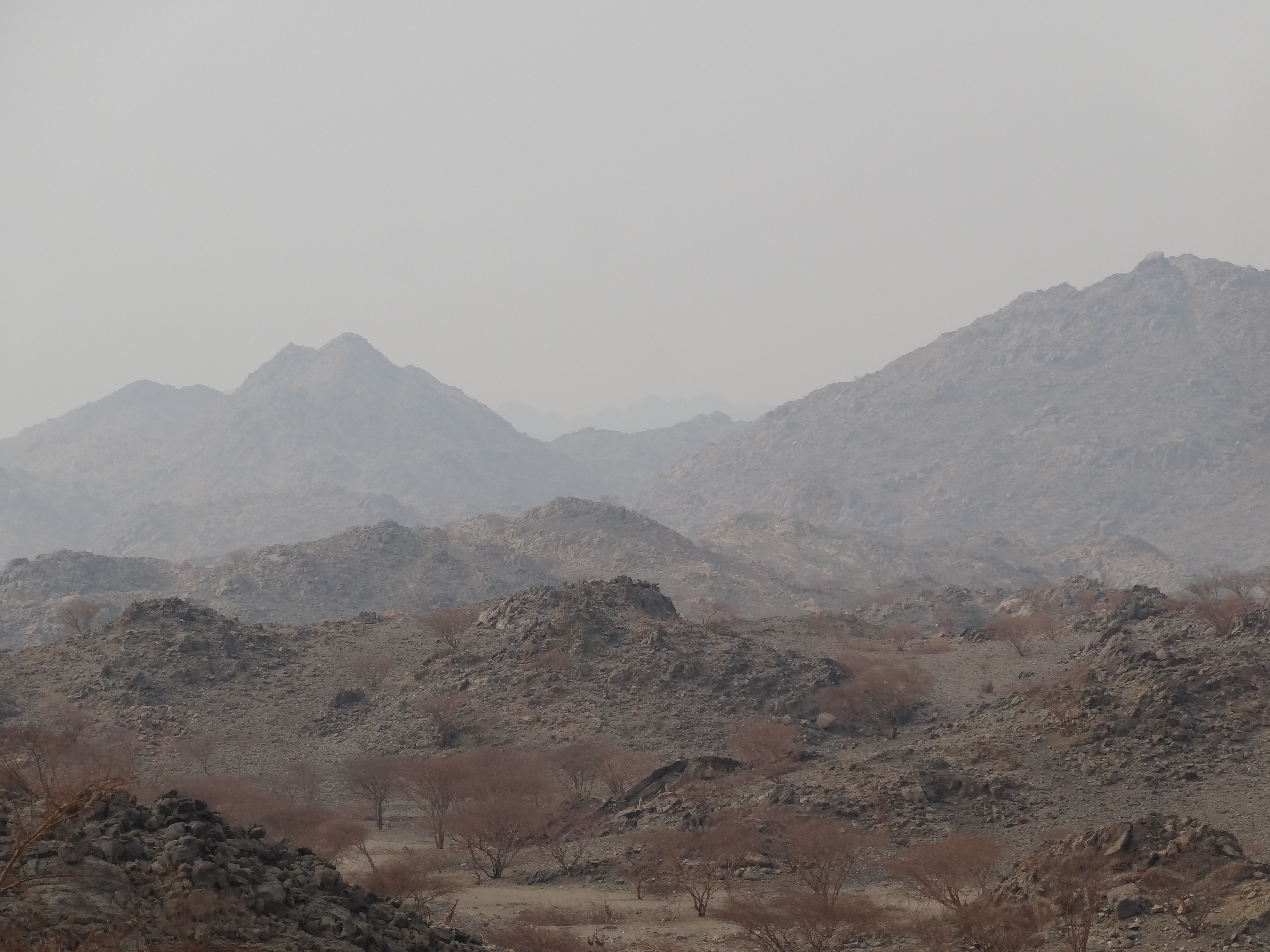 Hazy Saudi Mountains